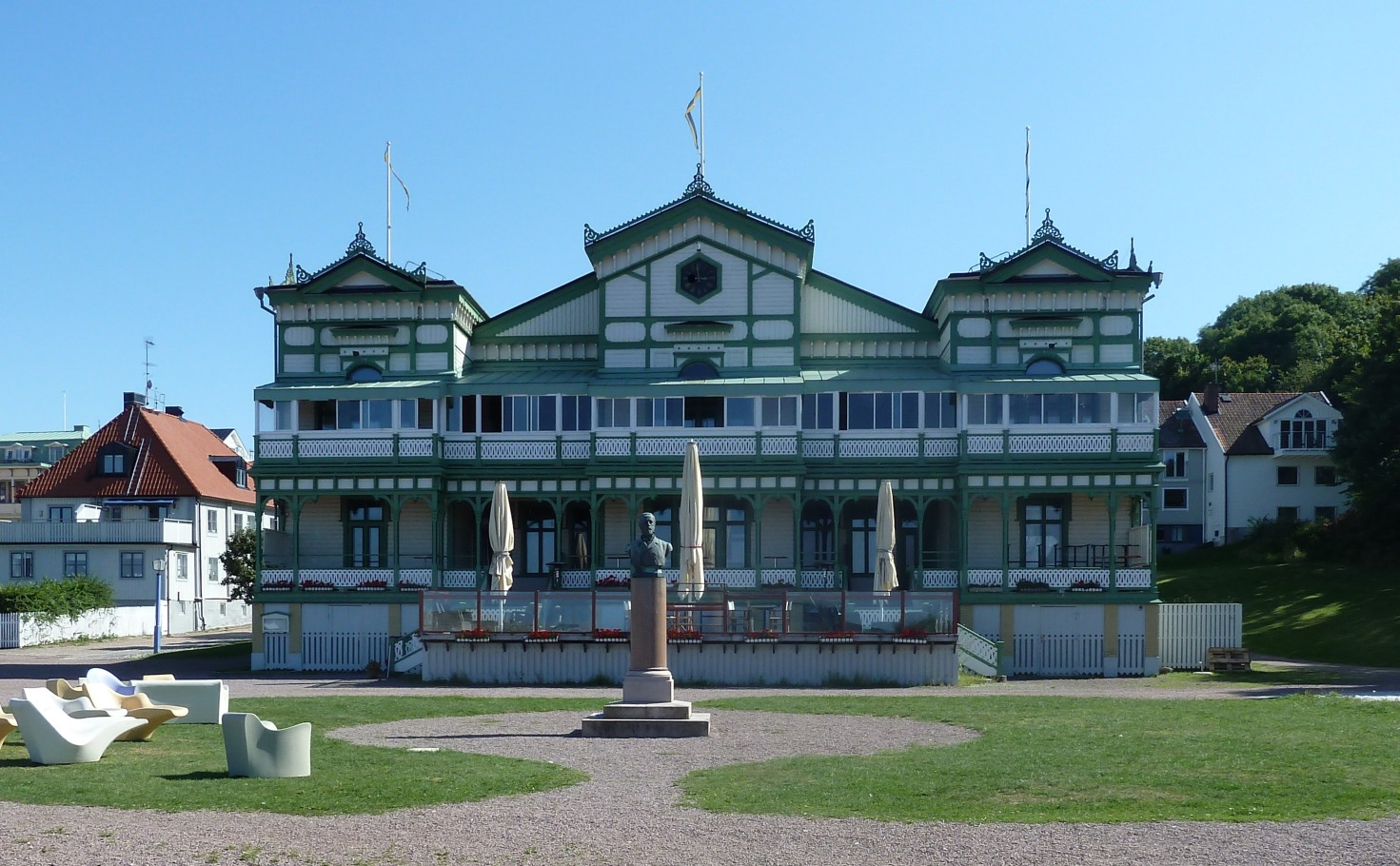 Societetshuset in Marstrand, front